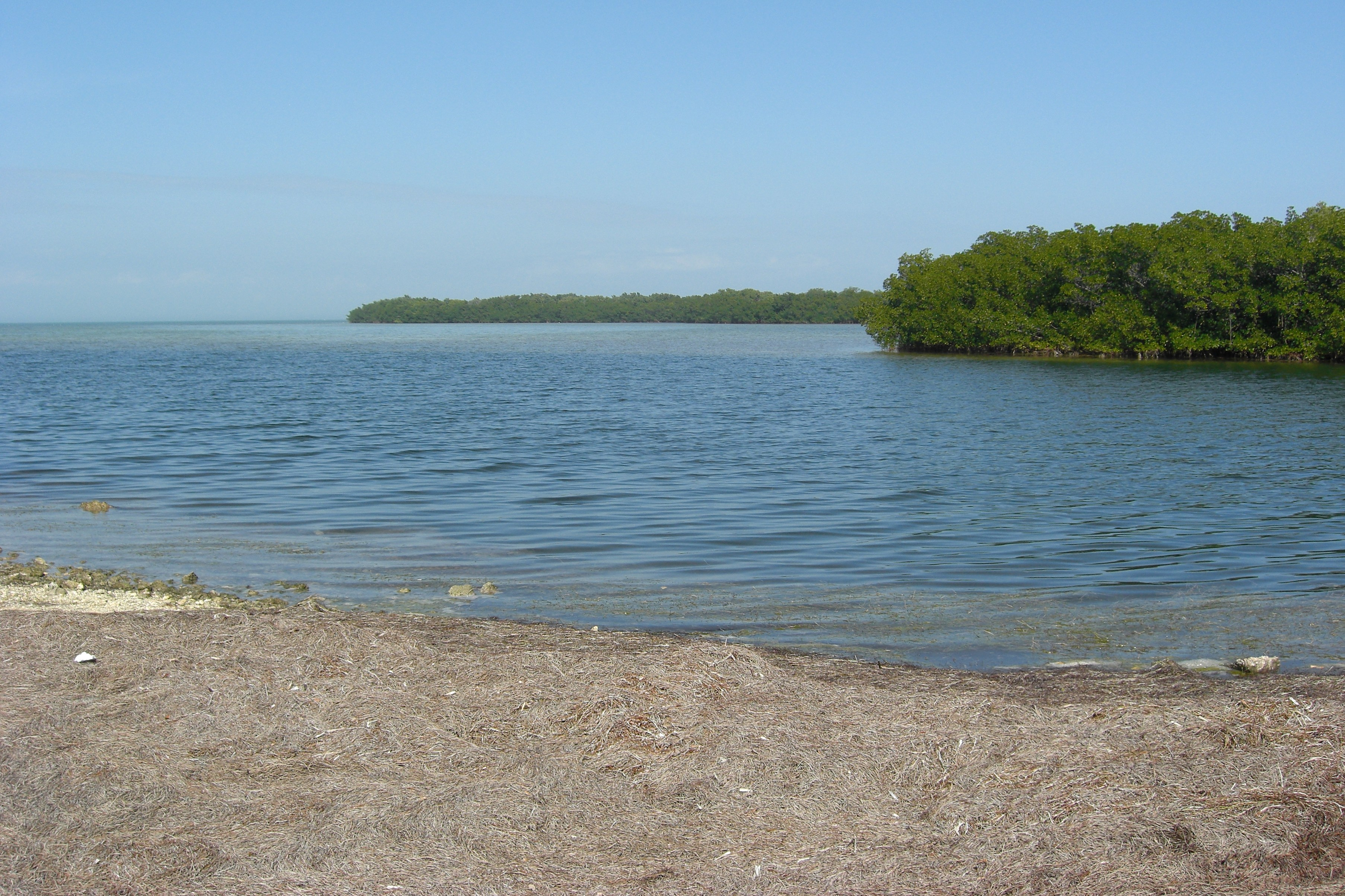 Fat Deer Key, Florida, 20110111